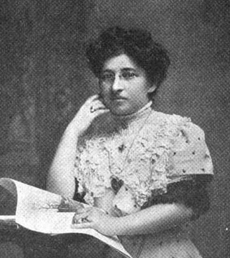 Nannie A. Reis, from a 1910 publication. A young white woman with dark hair in an updo, wearing glasses, with one hand against her cheek and one hand on a newspaper. Her gown has a lacy yoke and she is wearing a pendant and rings.